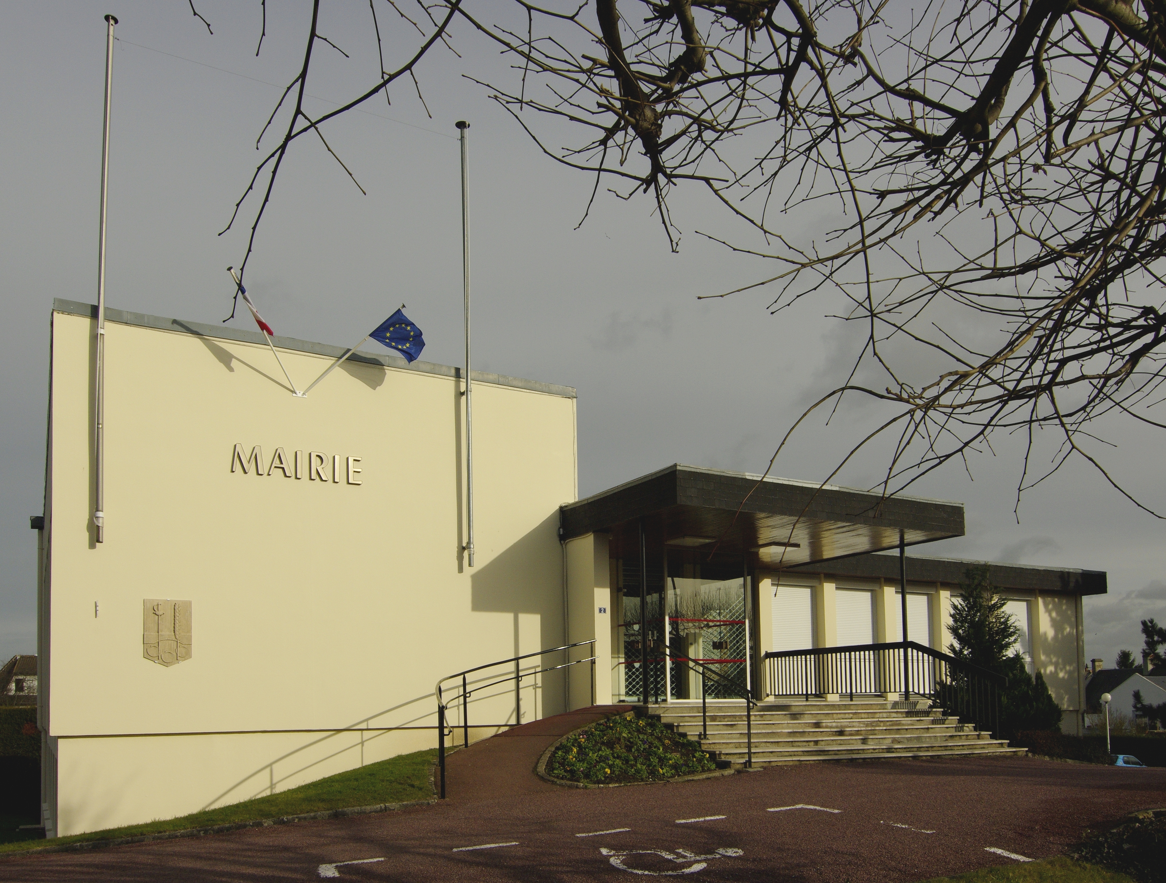 In Bretteville-sur-Odon, the new Town hall.